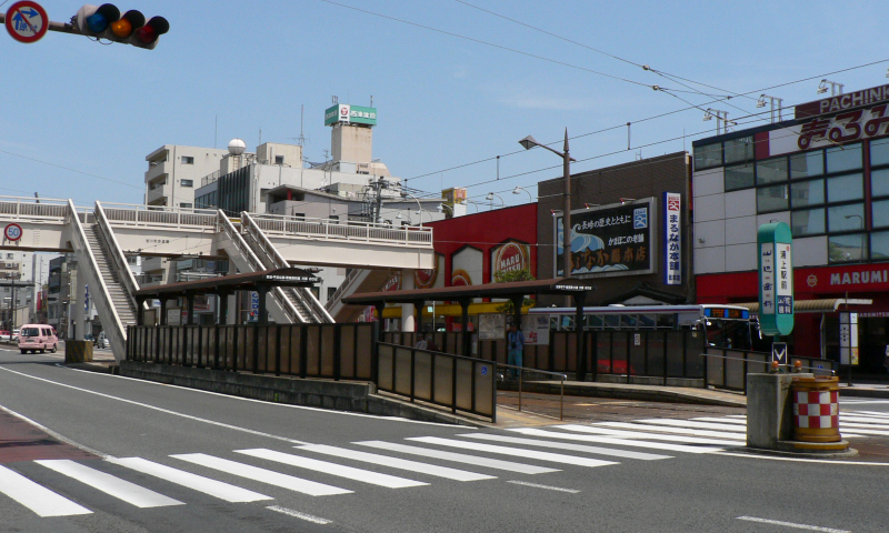 Nagasaki Electric Tramway Urakami-ekimae Station